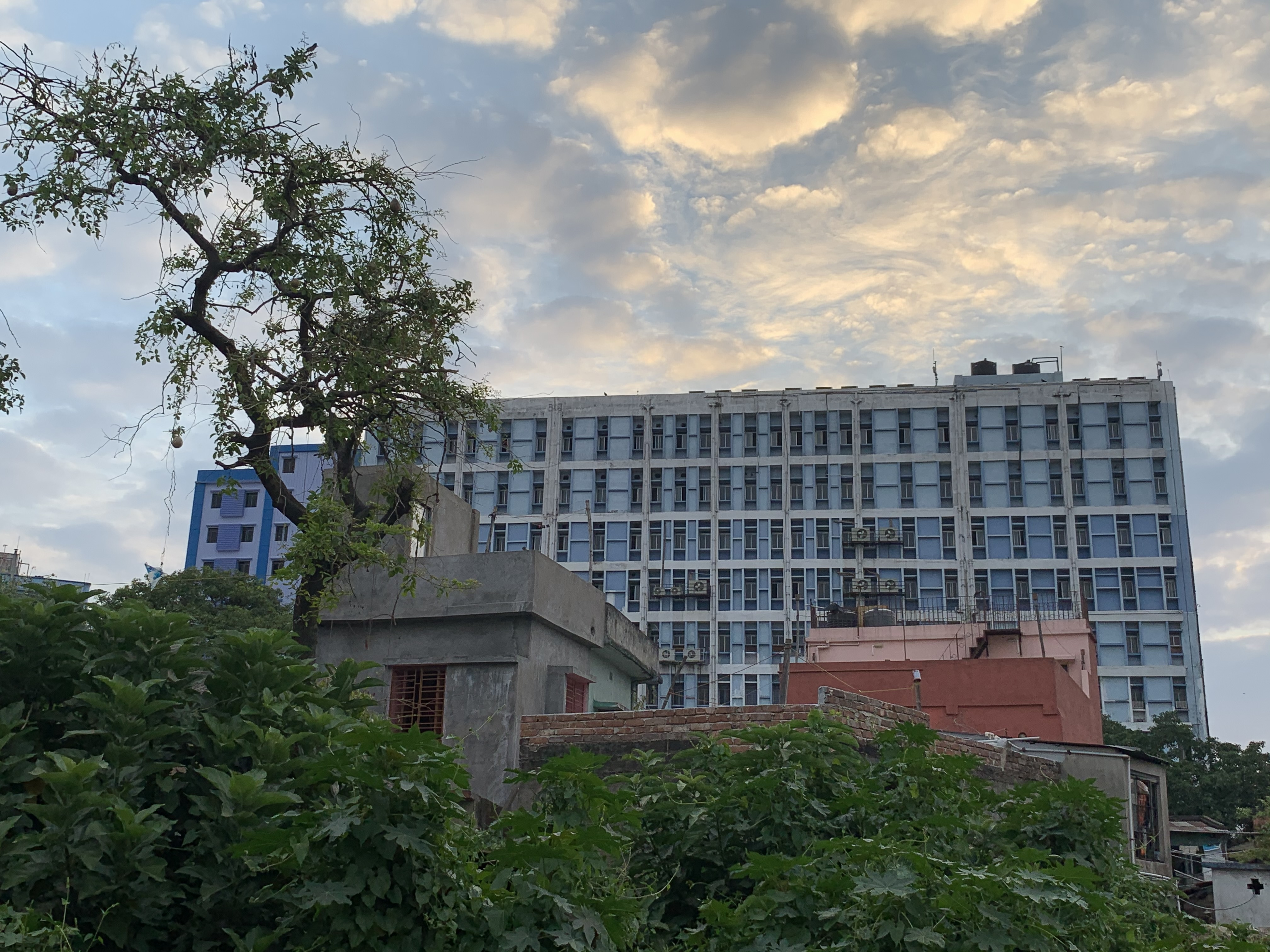 R. G. Kar Medical College & Hospital during Corona crisis in Kolkata, West Bengal, India.